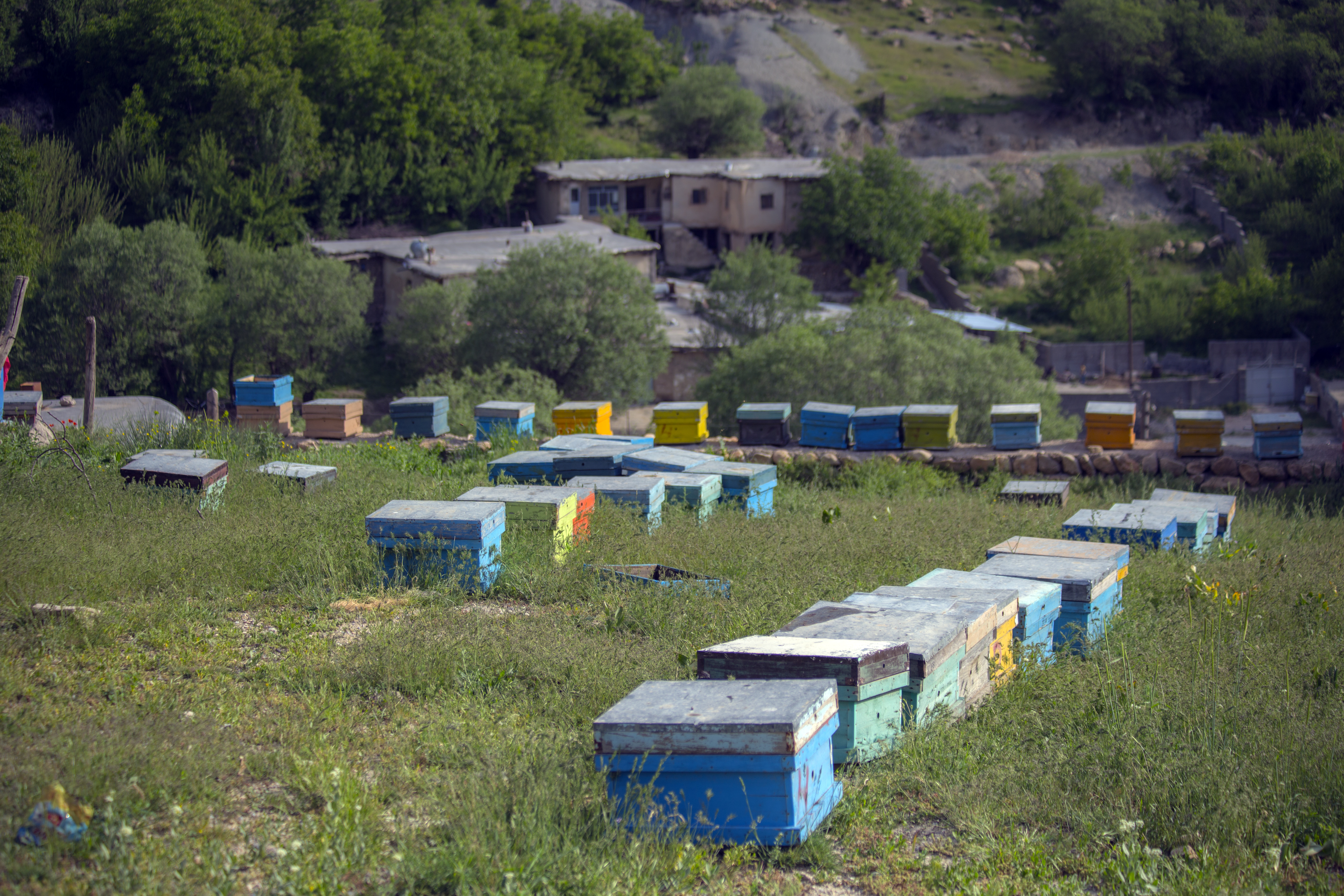 A village is a clustered human settlement or community, larger than a hamlet but smaller than a town, with a population ranging from a few hundred to a few thousand.